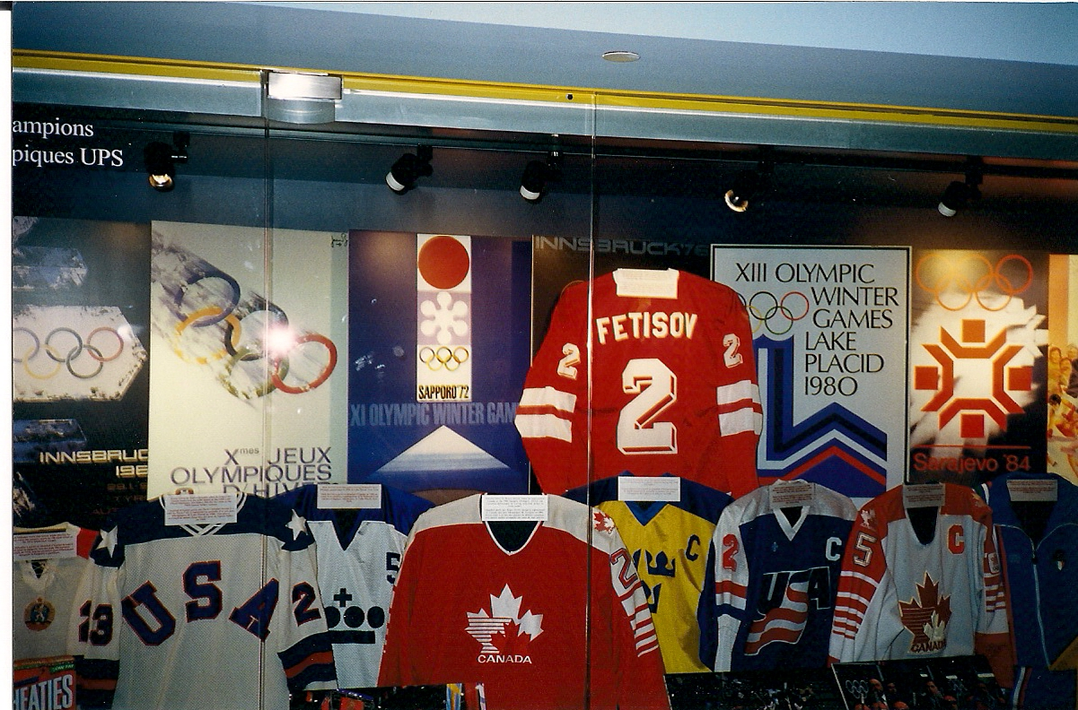 Author: Chris Miller.Source: Took picture myself on 18 July 1999. Image scanned on 20 May 2009.Purpose: To show ice hockey at the Olympic Games from the en:1920 Summer Olympics to the en:1998 Winter Olympics in 1999. Taken at the Hockey Hall of Fame in Toronto.